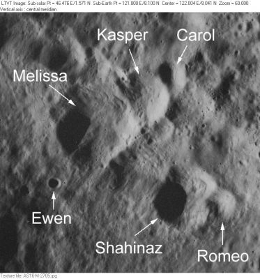 Apollo AS16-M-2705 This intensely-mapped area between Ibn Firnas and Ostwald includes IAU-approved minor feature names Melissa, Kasper, Carol, Ewen, Shahinaz and Romeo.